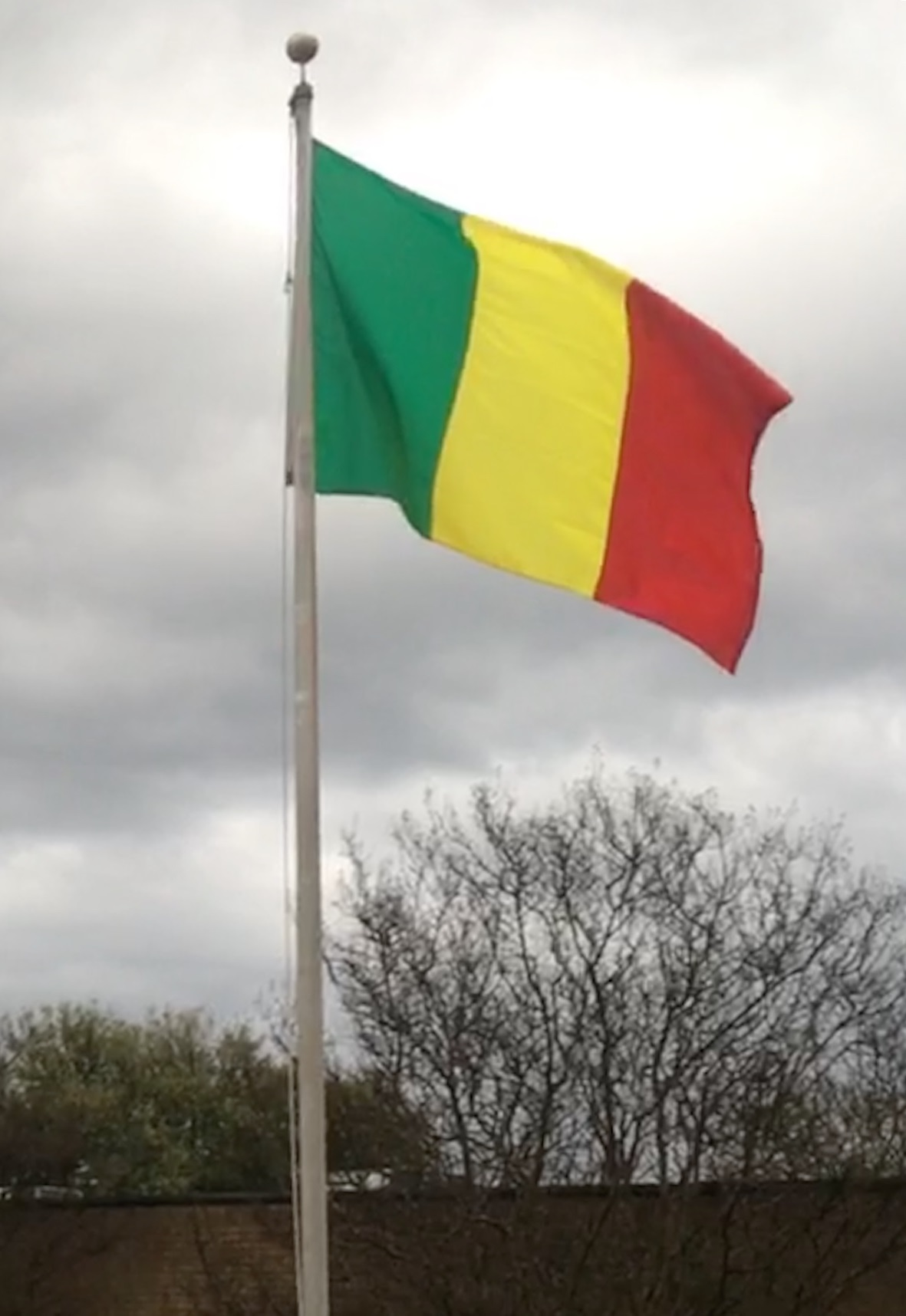 Flag of Mali on flagpole, taken at International Linguistic Center in Dallas, TX.